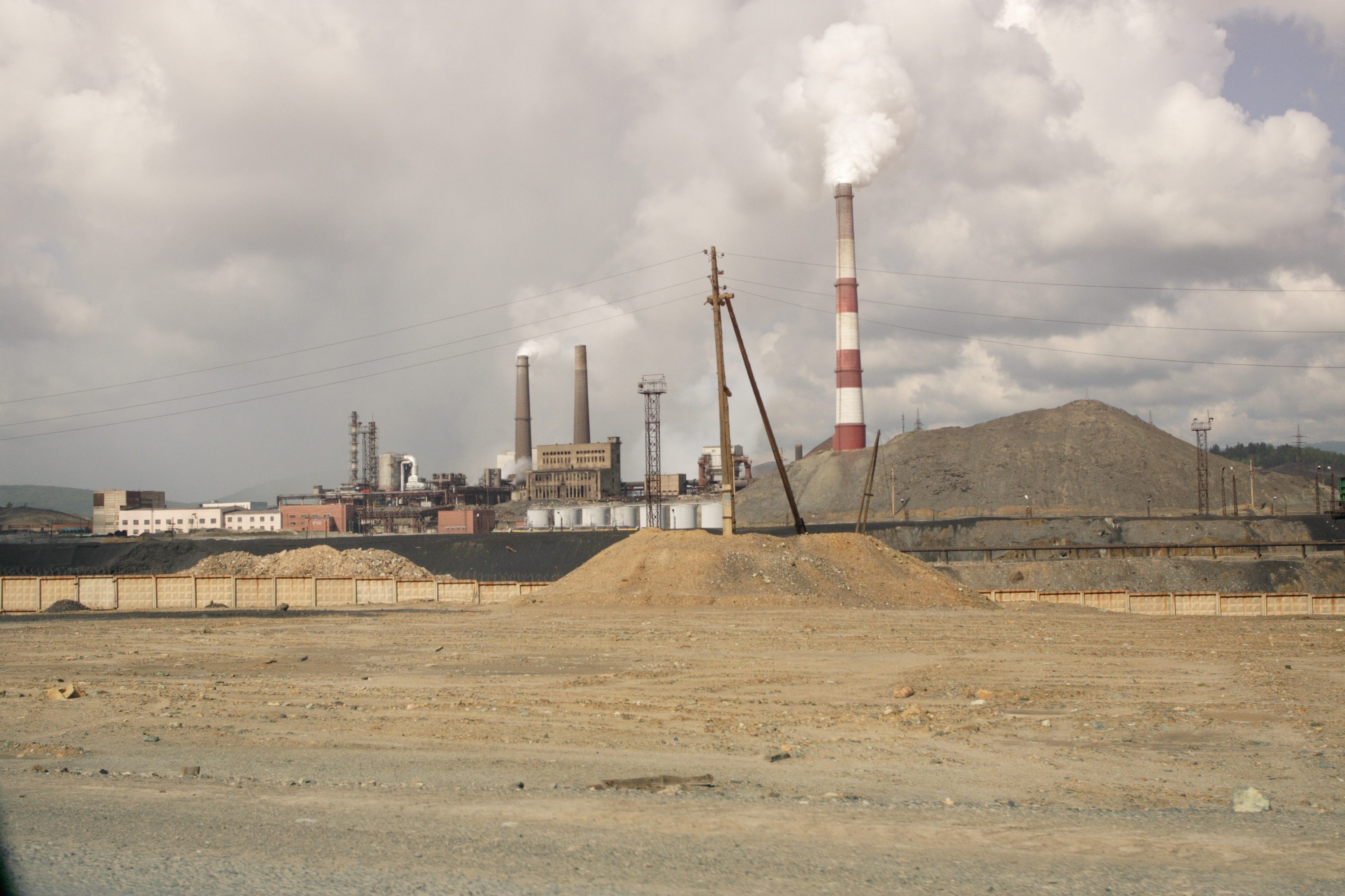 Copper smelter of Karabash, Chelyabinsk Oblast, Russia, responsible for one of the biggest pollutions of Russia